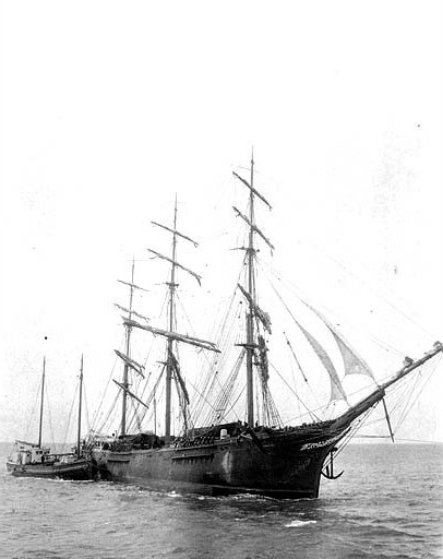 From John Cobb field notebook: Towing ship Abner Coburn to Naknek after she had been on the beach in bering Sea. May 1918 Subjects (LCTGM): Sailing ships--Alaska Subjects (LCSH): Abner Coburn (Sailing ship); Marine towing--Alaska